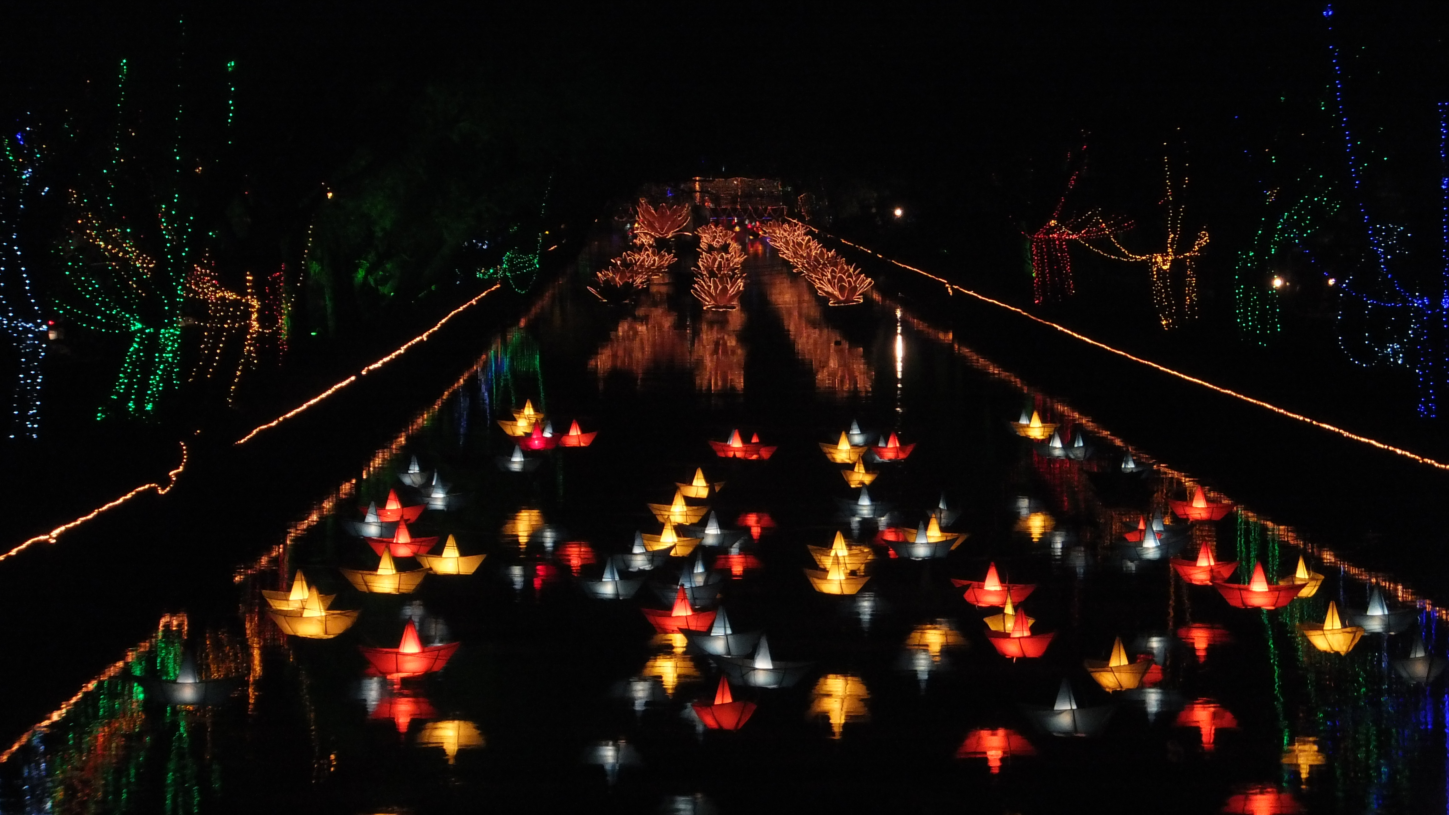 In March 2015 the Spring start. Canal get decorated. it feels amazing. Canal Bridge Jail Road, Lahore.